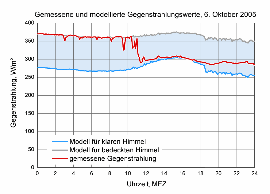 The red curve shows the atmospheric long-wave counterradiation on October 6, 2005. In the morning, the sky was covered by high fog. The water droplets, being efficient long-wave emitters, contributed to high radiation values. Around noon the fog dispersed and left a cloudless sky. The atmosphere gases are less efficient long-wave emitters, the radiation values therefore dropped markedly. The gray and blue curves have been derived from the simultaneously measured temperatures and humidities, using empirical radiation models for cloudy and clear skies, respectively. Source: Drawn by myself, using weather data measured by the Fraunhofer Institute for Building Physics, Holzkirchen, Germany (permission to use the data for the diagram has been granted). Date: 2007 Mar 07 Author: Sch Other versions: diagram in